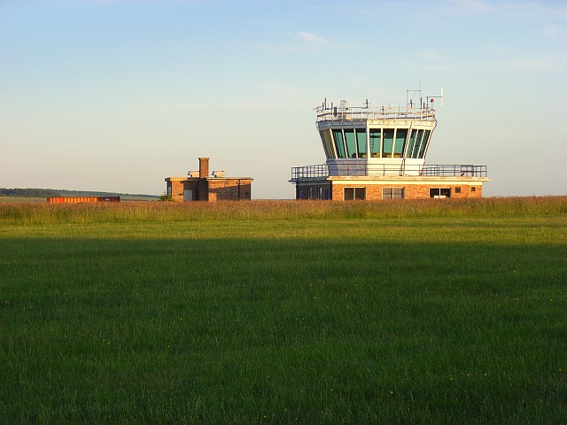 Air traffic control, Netheravon Airfield